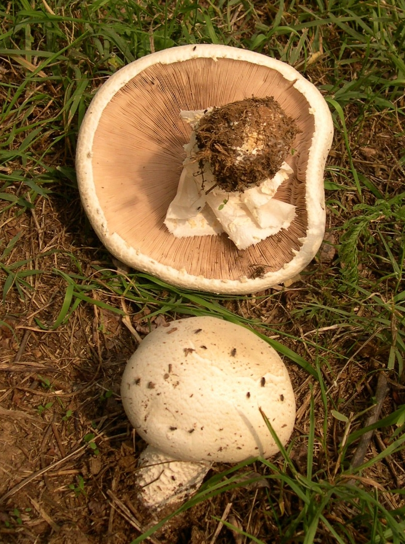 Agaricus alberti September 2005 - Near Besana Brianza - Italy by Archenzo